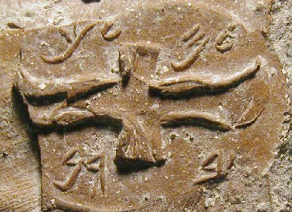 LMLK seal impression; type H2D; Redondo Beach collection #22; photographed Feb-21-2003 Funhistory 02:54, 6 Feb 2005 (UTC)